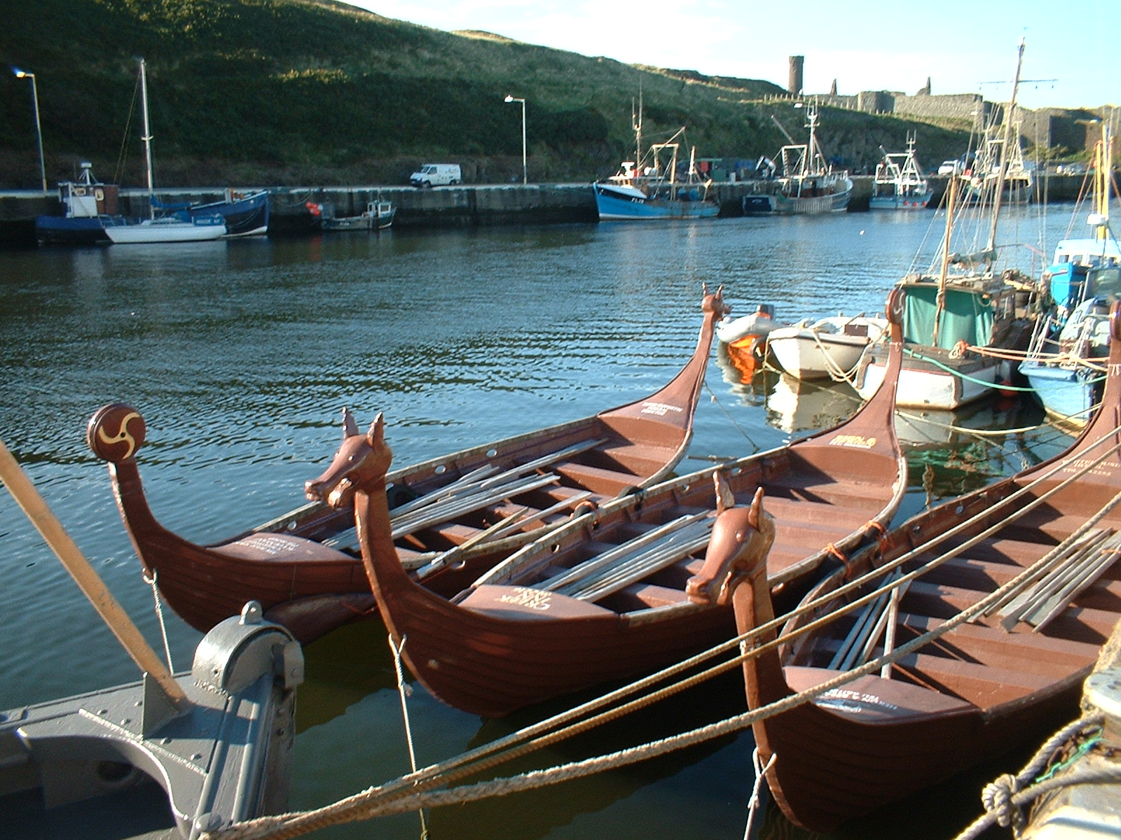 Replica "vikingship" made out of plastic for the Boat & Viking Festival in Peel, Isle of Man, in the harbour of Peel, near museum House of Manannan